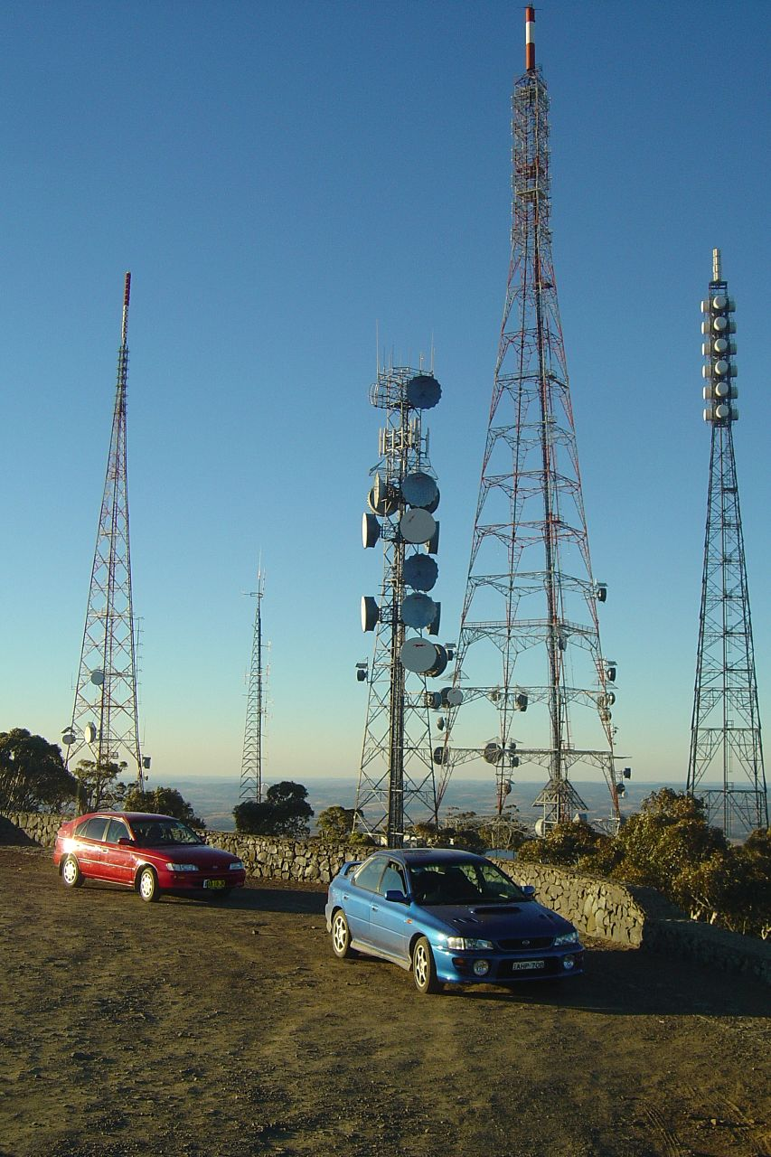 Mount Canobolas Transmission Towers